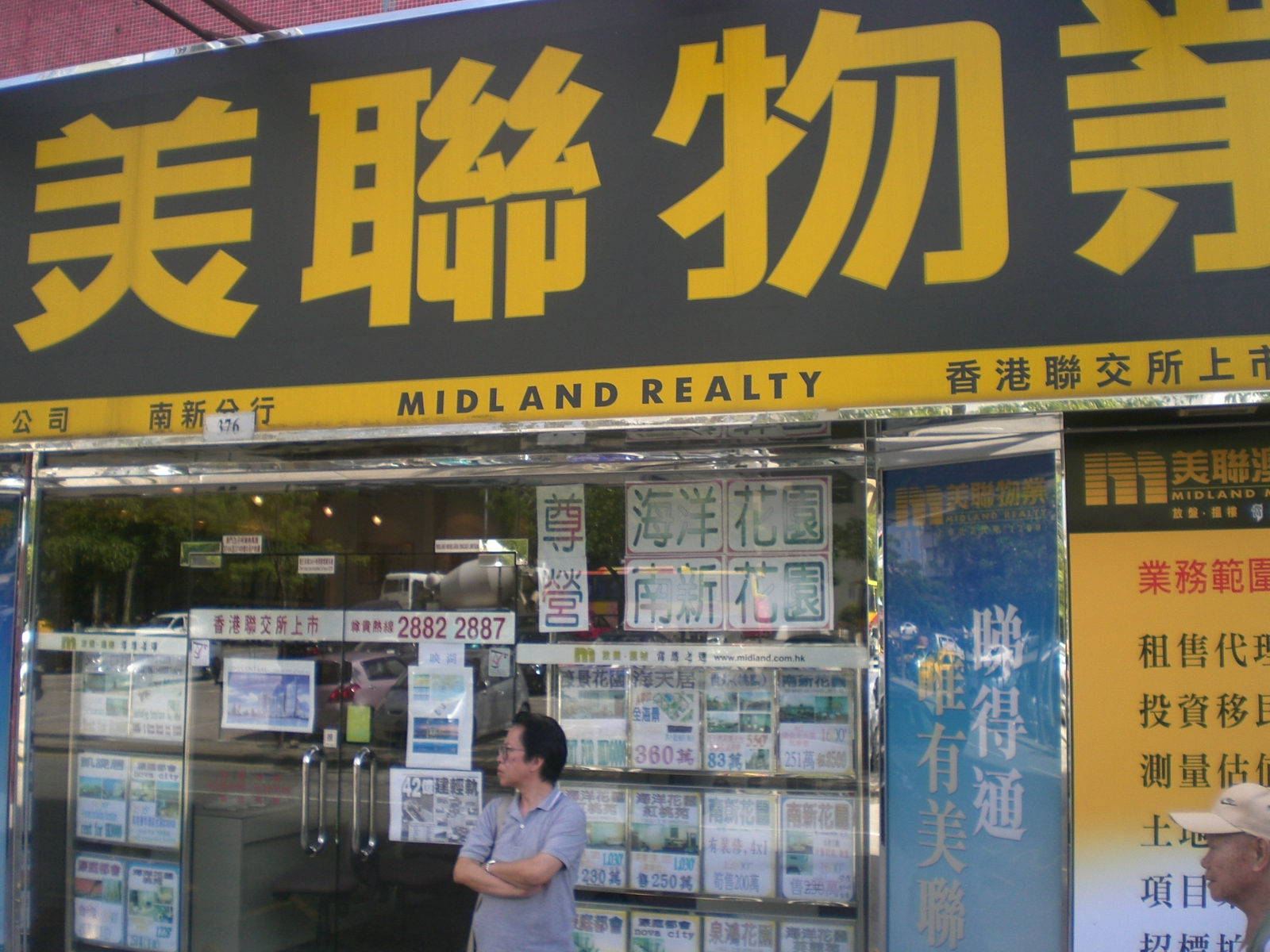 美聯集團有限公司, Midland Holdings Limited is a public listing group in Hong Kong. Author= Mo707